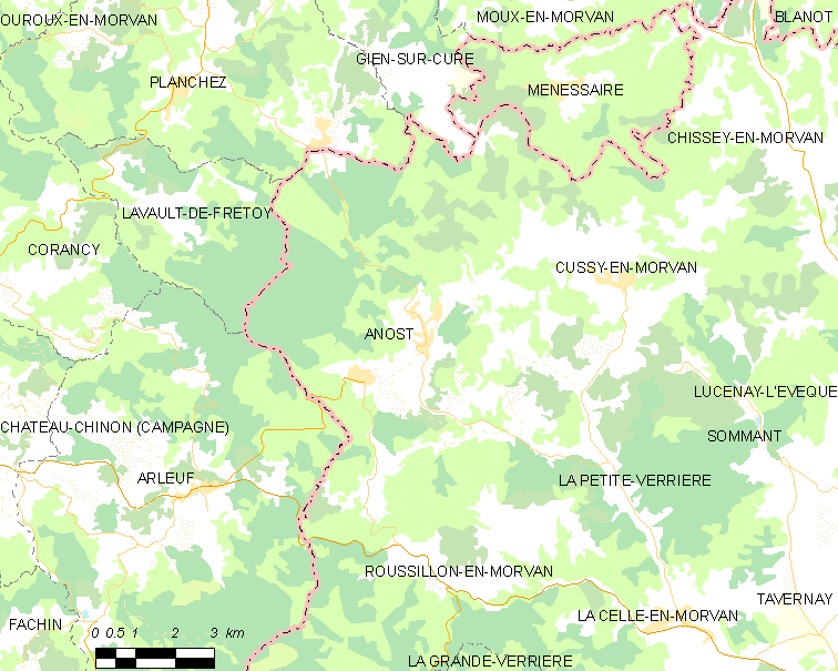 Map of French municipality